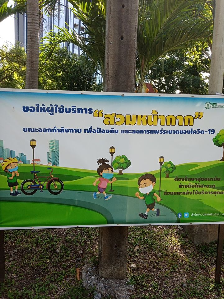 Lumphini Park during Covid-19 pandemic